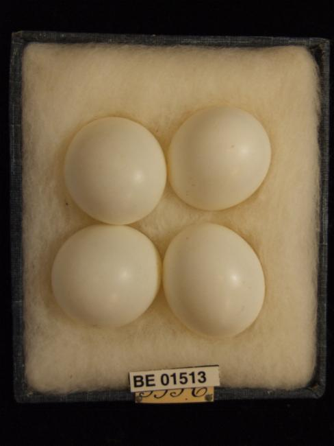 Eggs from the Buff-breasted Paradise-Kingfisher (Tanysiptera sylvia sylvia)